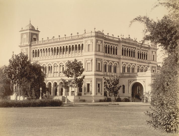 Photograph of the Makarpura Palace, near Baroda, Gujarat from the Curzon Collection, taken by an unknown photographer during the 1890s. The palace was built by the Gaekwar Sayaji Rao III (ruled 1875-1939) between 1883-1890 and designed by Robert Fellowes Chisholm (1840-1915) in an Italian Renaissance style. It lies to the south of Baroda and was used as a country residence. This view from the north-east shows a corner of the three-storey façade, arcaded with semi-circular arches, with a porte-cochere entrance to the right. The palace is set in English-style formal gardens, shown in the foreground.